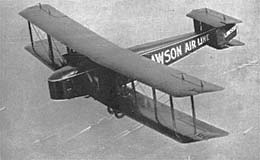 Aerial shot of Lawson Aerial Transport C.2 or L-2 over Ohio